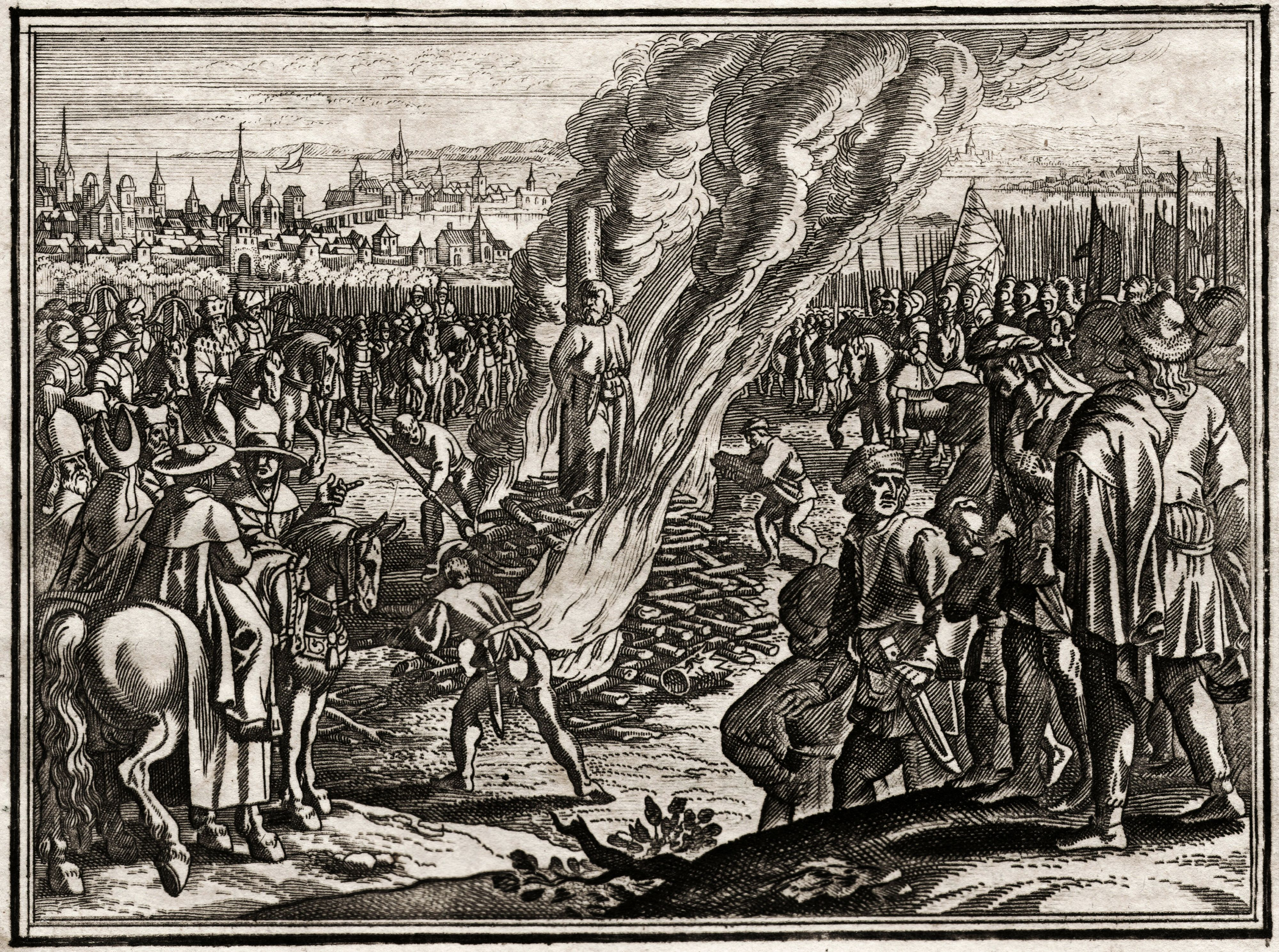 Burning of Jan Hus at the stake